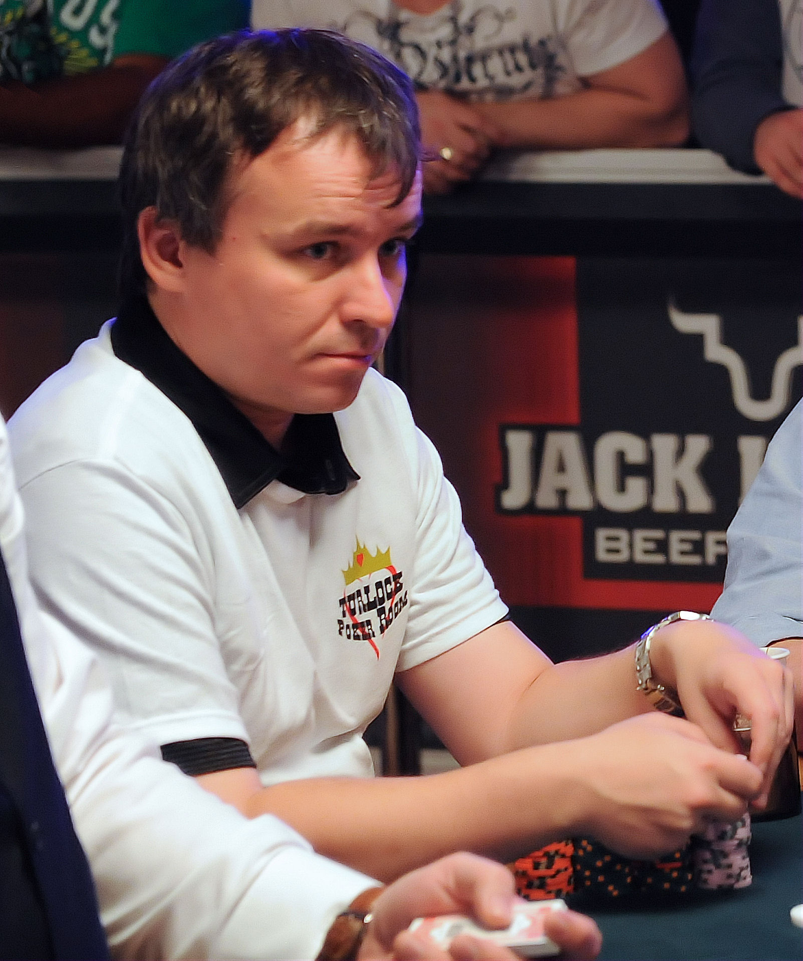 Martin Staszko at the $10,000 Buy-in No-Limit Hold'em Main Event at the 2011 World Series of Poker.